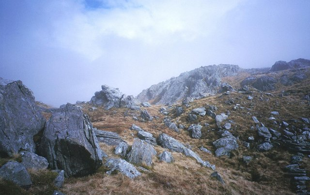 West ridge of Sgurr an Utha